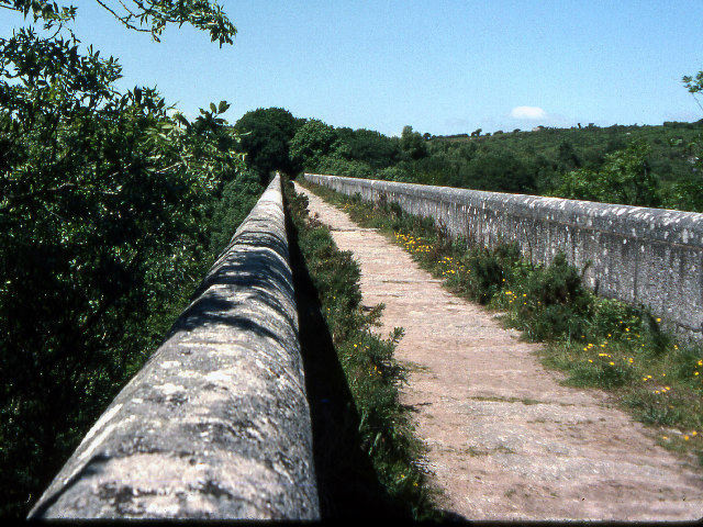 Treffrey's Viaduct, 650 feet long and 100 feet high, dominates the beautiful, lush Luxulyan valley. Built in 1842, it was the first all stone viaduct in Cornwall. This is the trackbed on the top of the viaduct looking north west towards Luxulyan, taken in 1979. For more information see the Wikipedia article Treffry Viaduct.